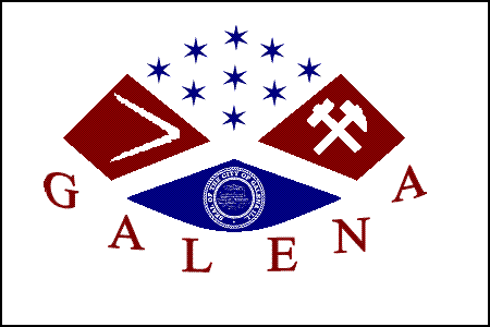 The Galena Flag adopted by the city in 1976. Drawn to specs by me from records at City of Galena.